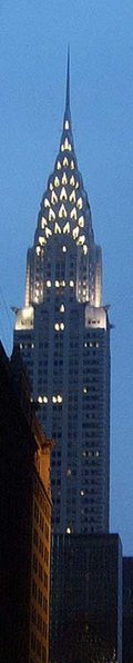 Chrysler Building at dusk, New York City